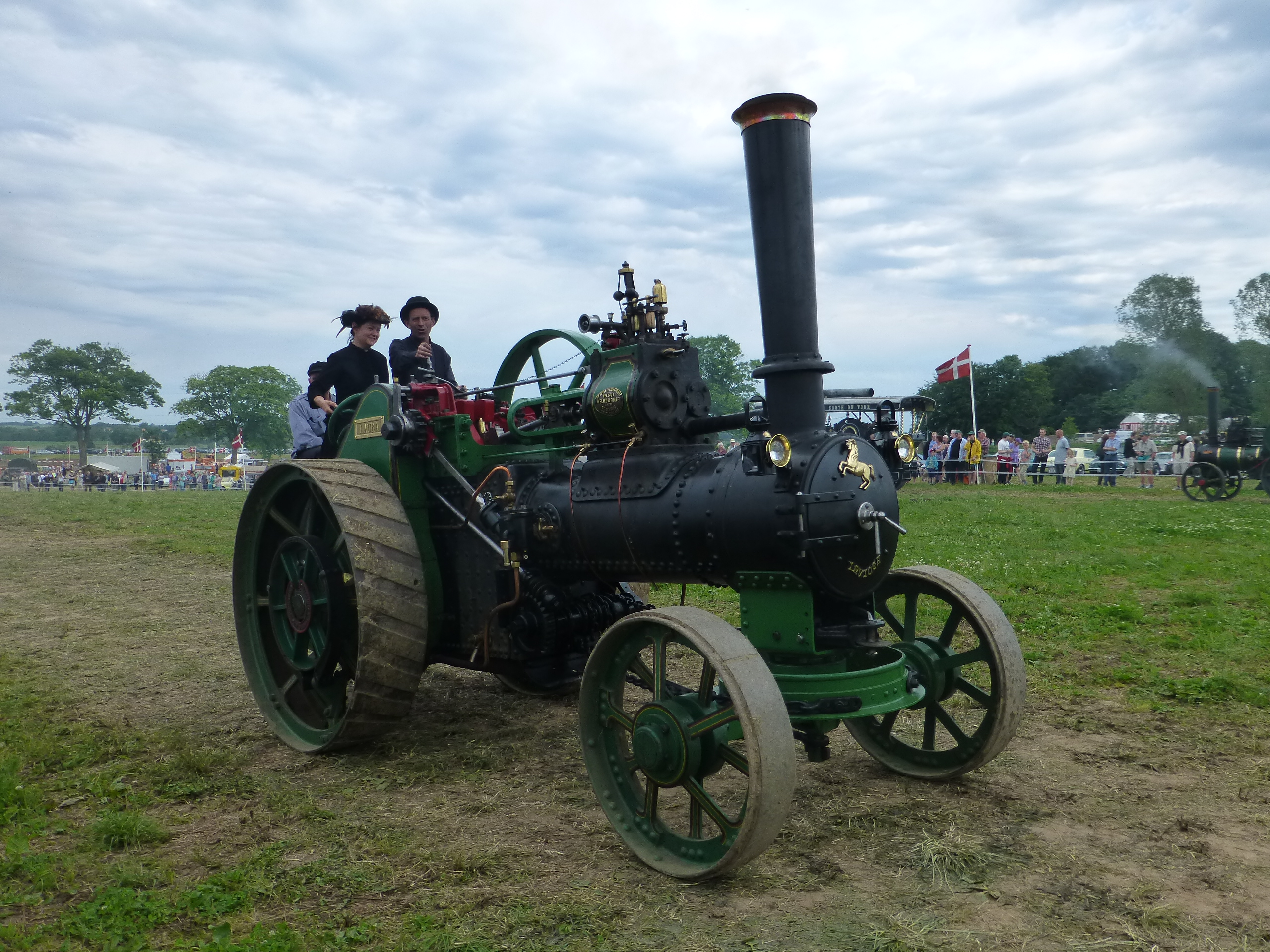 Steam-powered vehicles at the heritage fair Græsted Veterantræf in Græsted in Denmark.